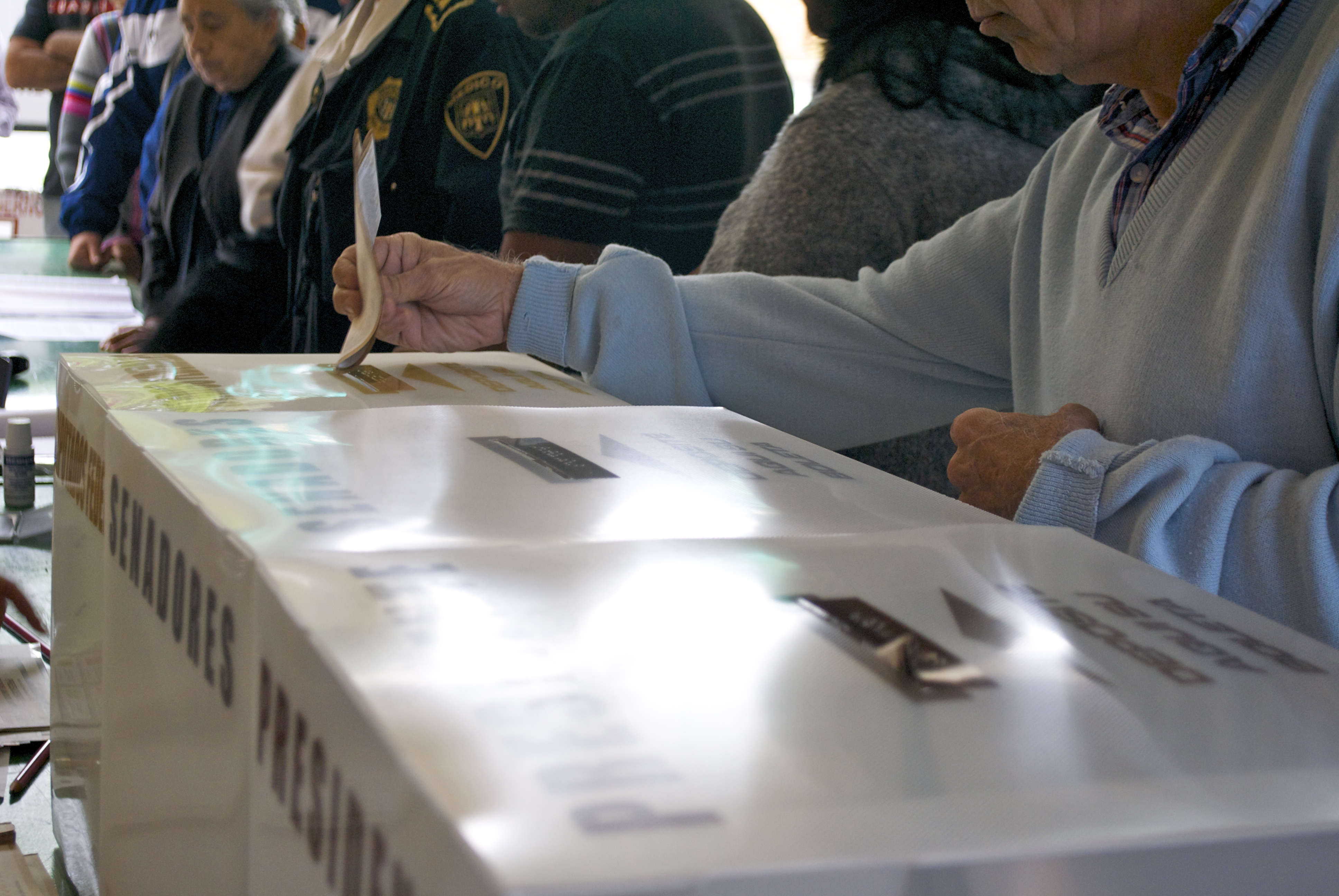 A citizen casting their ballot in general election in Mexico in 2012. Mexico City.